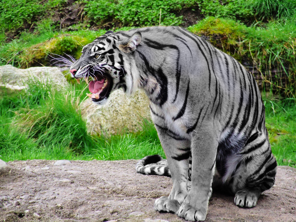 An artist’s rendering of a Maltese tiger (based on photograph of normal tiger)